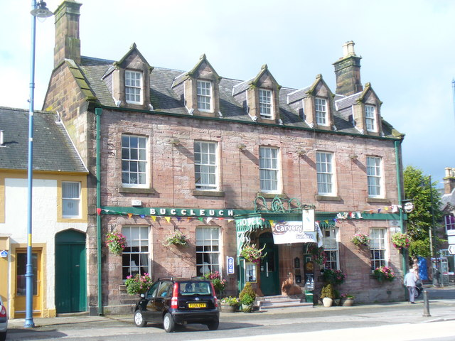 Buccleuch Hotel This large and imposing sandstone building sits at the centre of Thornhill. The hotel is named after the local lord, the Duke of Buccleuch and Queensberry whose ancestral seat is at nearby Drumlanrig Castle.